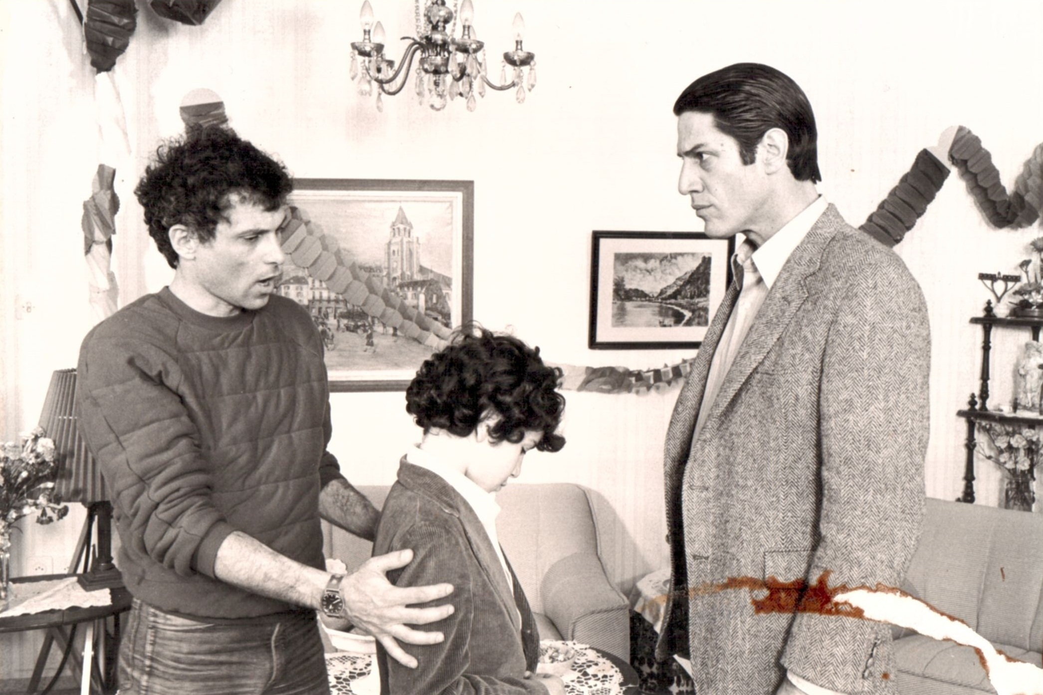 Stephen Macht (right) with Riki Shelach (left)